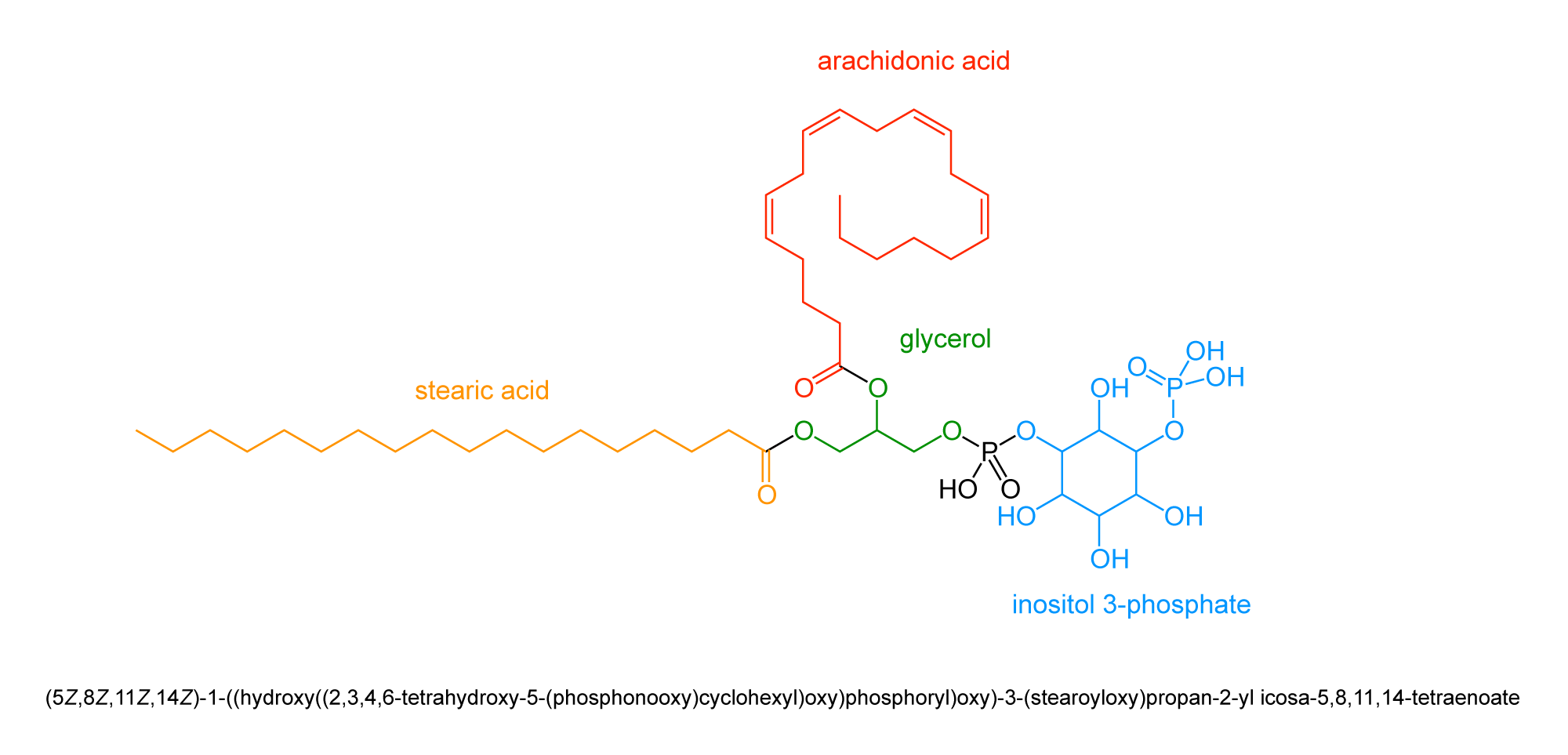 Skeletal formula of a specific phosphatidylinositol 3-phosphate